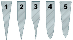 Examples of blade grinds